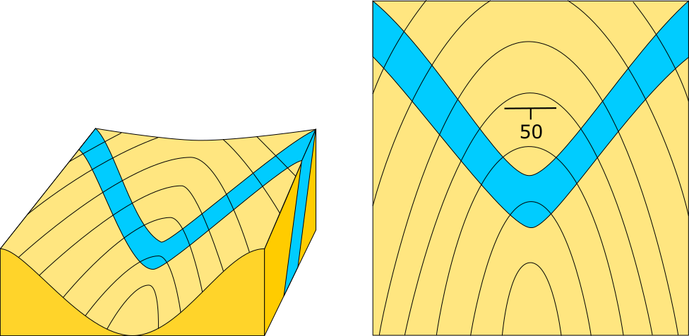 Downstream sloping layers: they form a pattern in which the traces cut the topographic contour lines and in the valleys they form a V, the apex of which points downstream, when the dip of the layer is greater than the valley gradient.